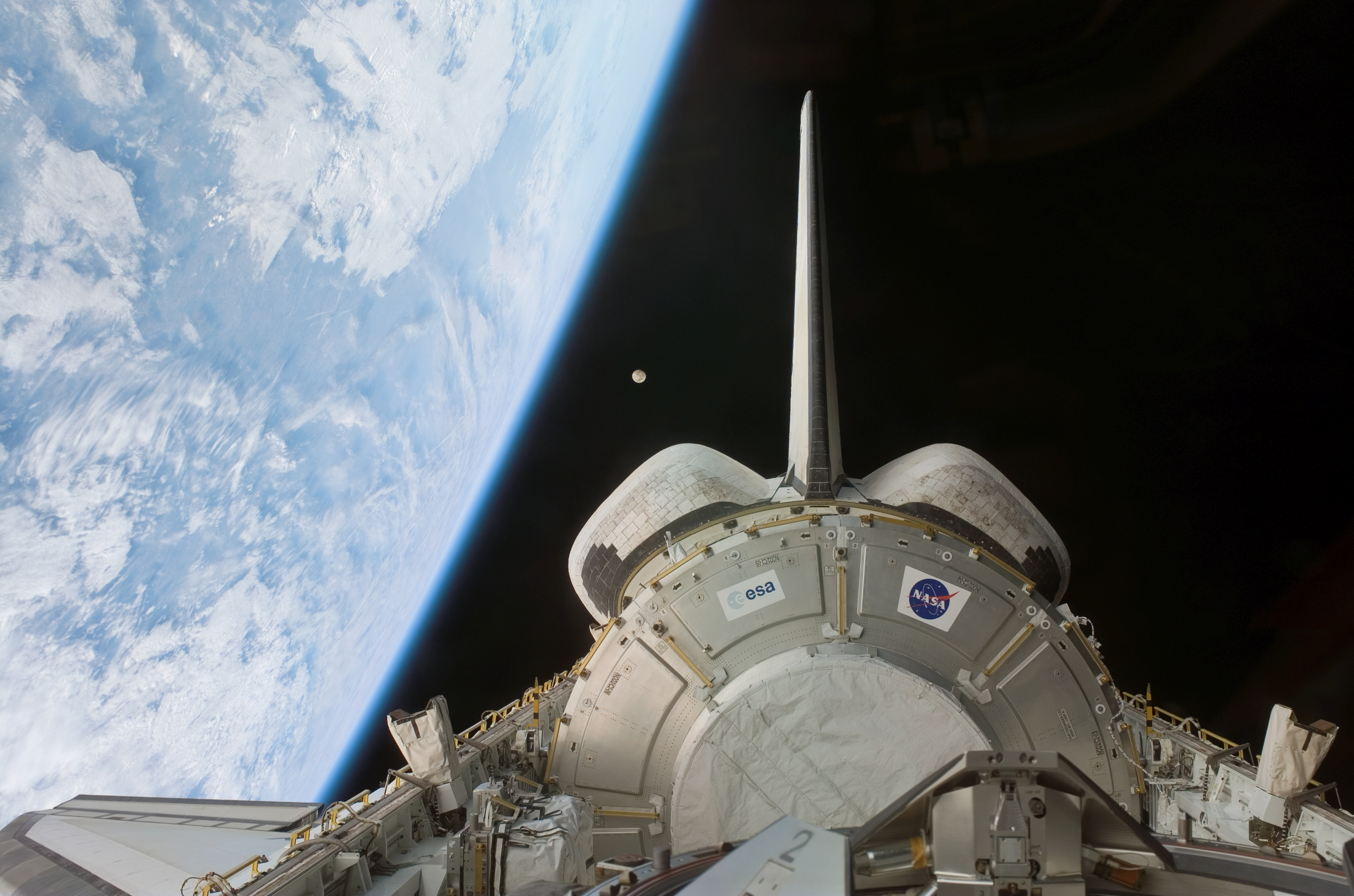 Backdropped by the blackness of space and Earth's horizon, the Harmony node in Space Shuttle Discovery's payload bay, vertical stabilizer and orbital maneuvering system (OMS) pods are featured in this image photographed by a STS-120 crewmember during flight day two activities. Earth's moon is visible at center.